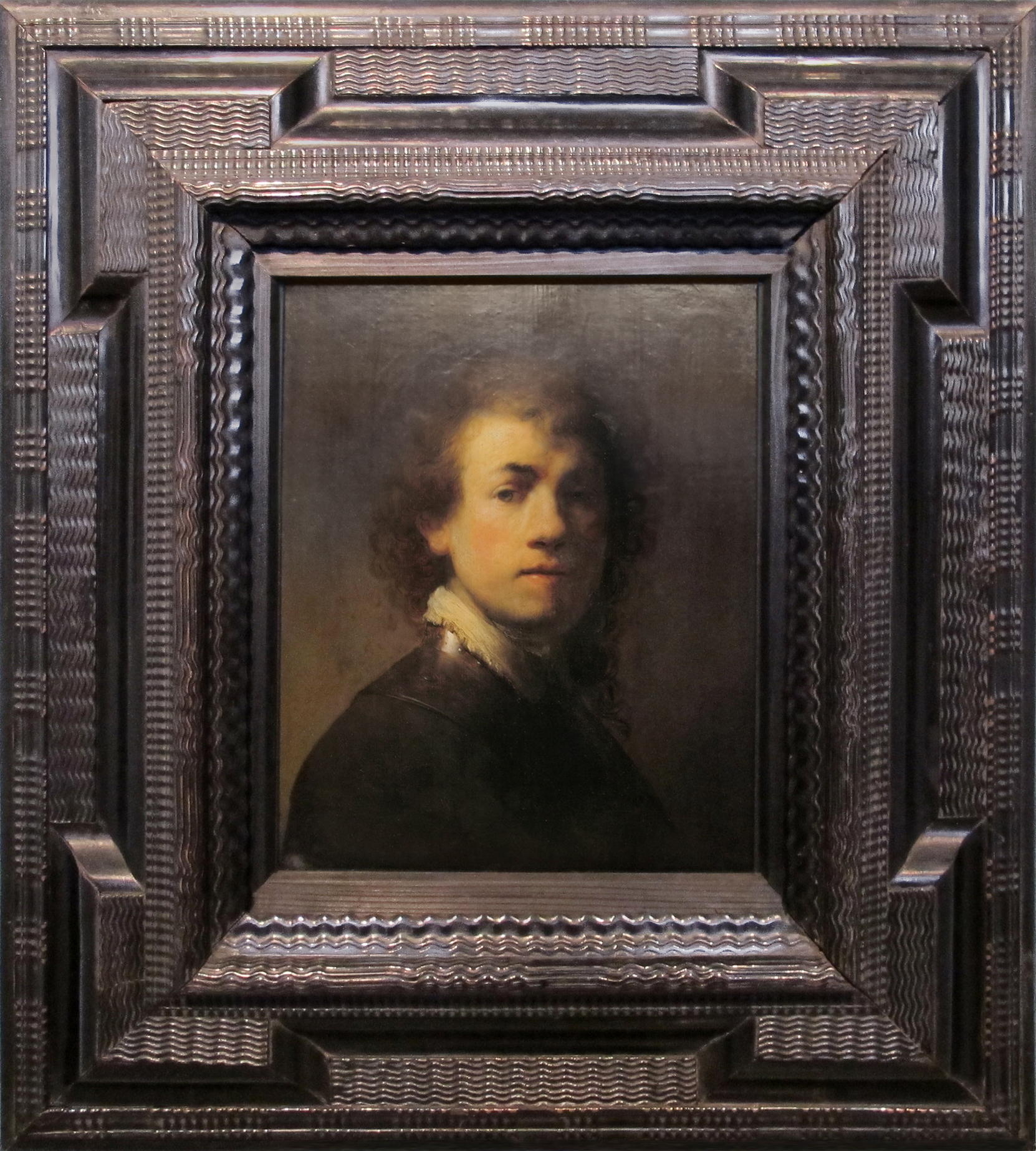 Bust of Rembrandt facing right, wearing a Gorget underneath a white colar. He is looking at the viewer.